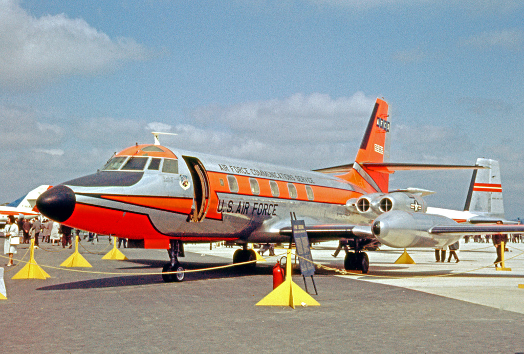 Lockheed C-140A JetStar of the US Air Force Communications Service at Paris Le Bourget Airport in 1963